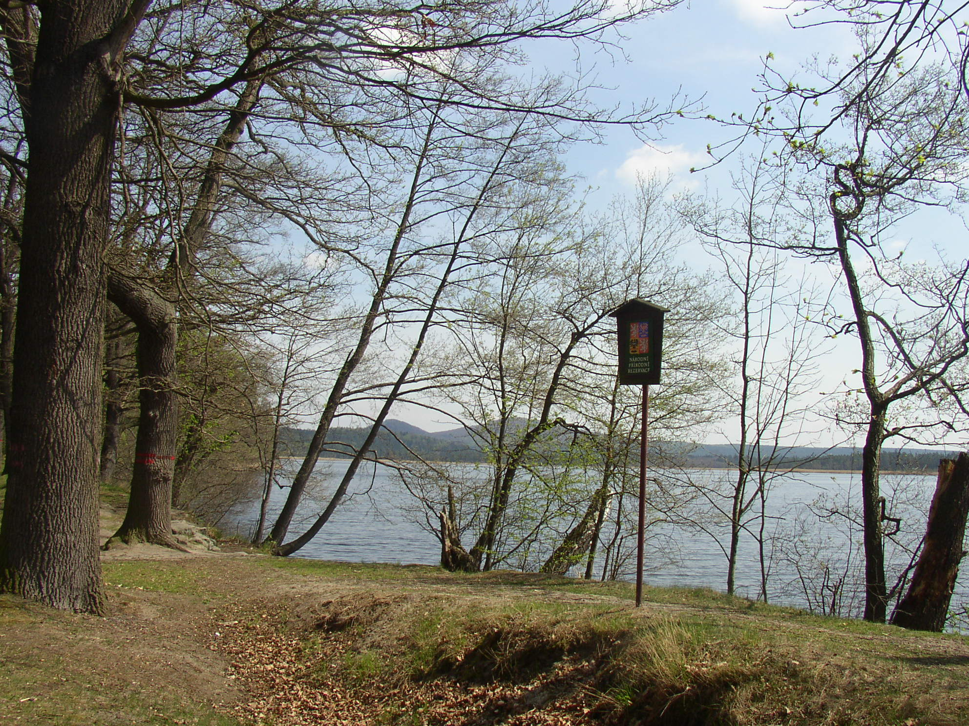 Břehyňský rybník (Břehyně Pond) within Břehyně - Pecopala National Nature Reserve east of Doksy town, Česká Lípa District, Czech Republic.